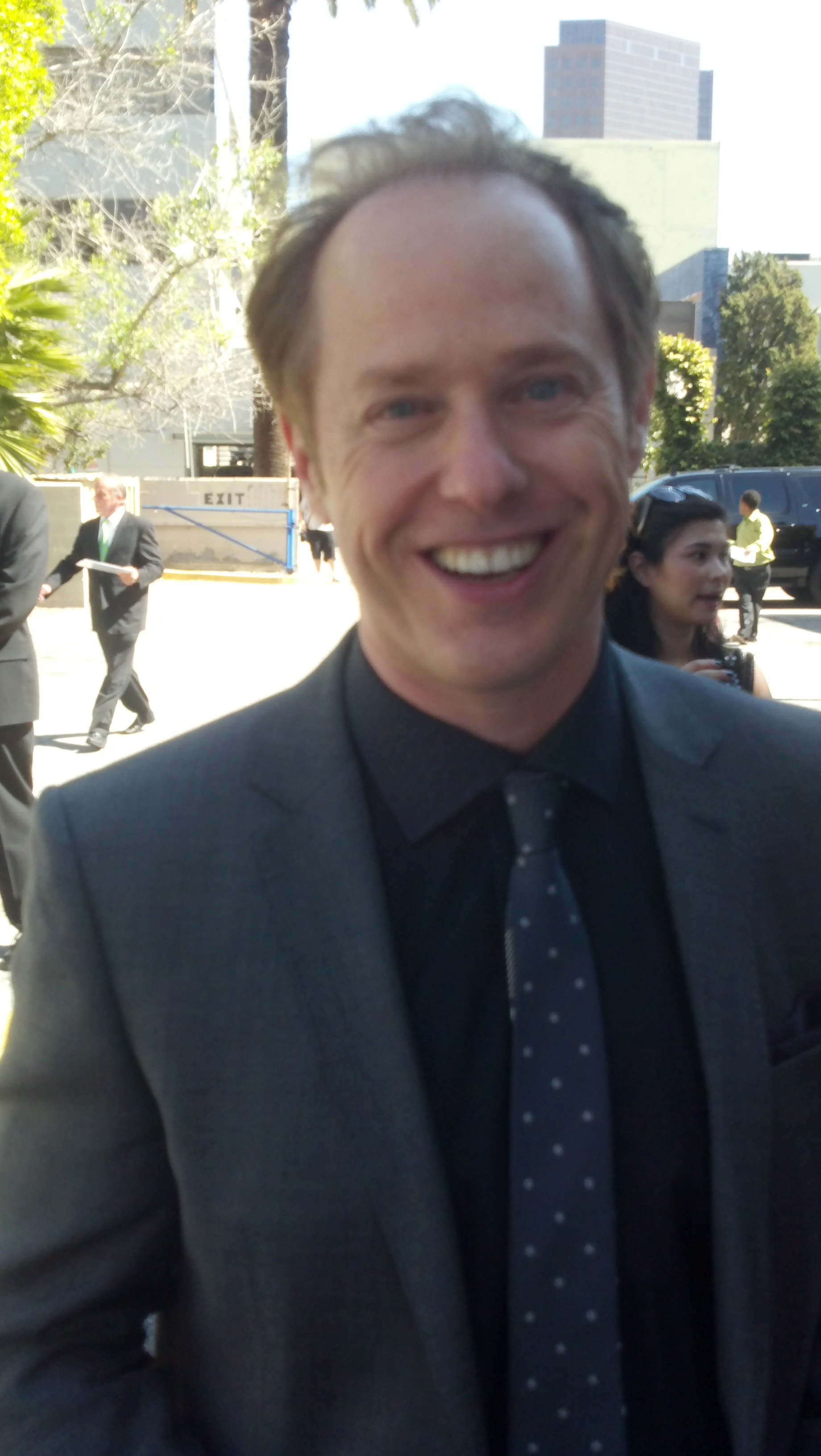 Raphael Sbarge, prior to the Once Upon a Time panel at PaleyFest 2012.